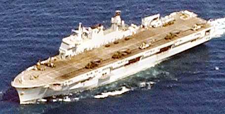 HMS Ocean from within a five nations aircraft carrier parade formation at sea.